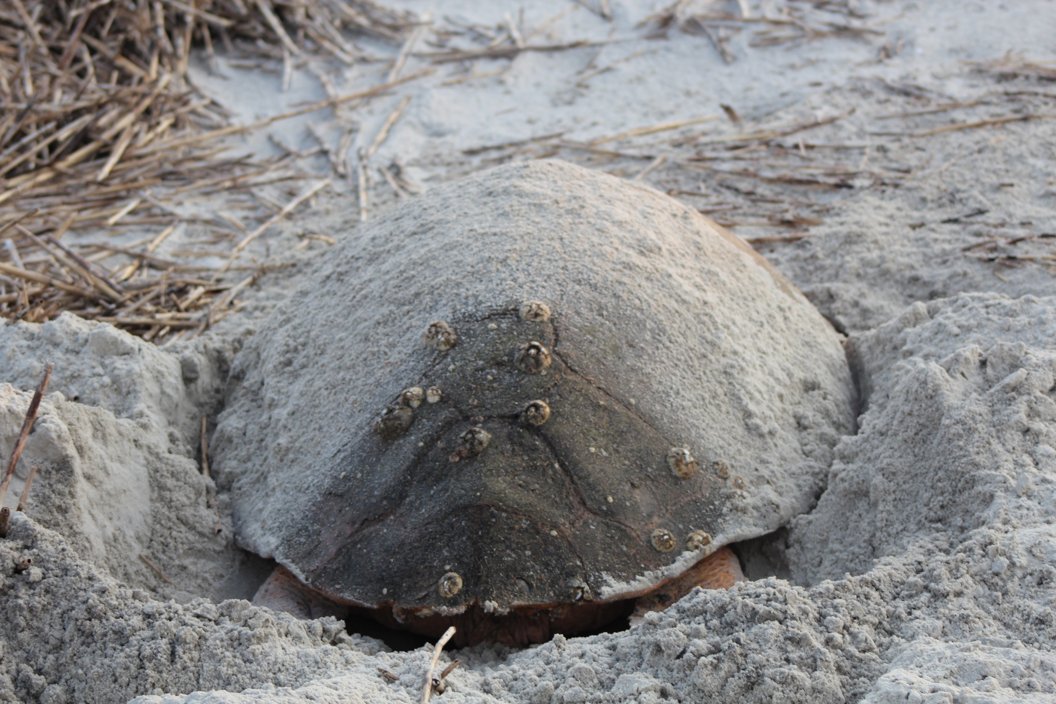 July 17, 2012 - Blackbeard Island, GA Barnacles on the back of a Loggerhead sea turtle covering her nest. Barnacles and other organisms that grow on top of the turtle's carapace are called "epibiota". It is completely normal to find sea turtles and other marine creatures with other organisms using them as a stationary structure. Credit: USFWS/Molly Martin